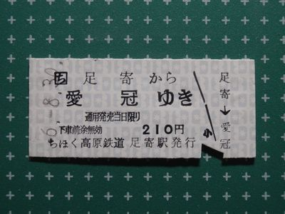 Ticket of Hokkaido Chihoku Kogen Railway